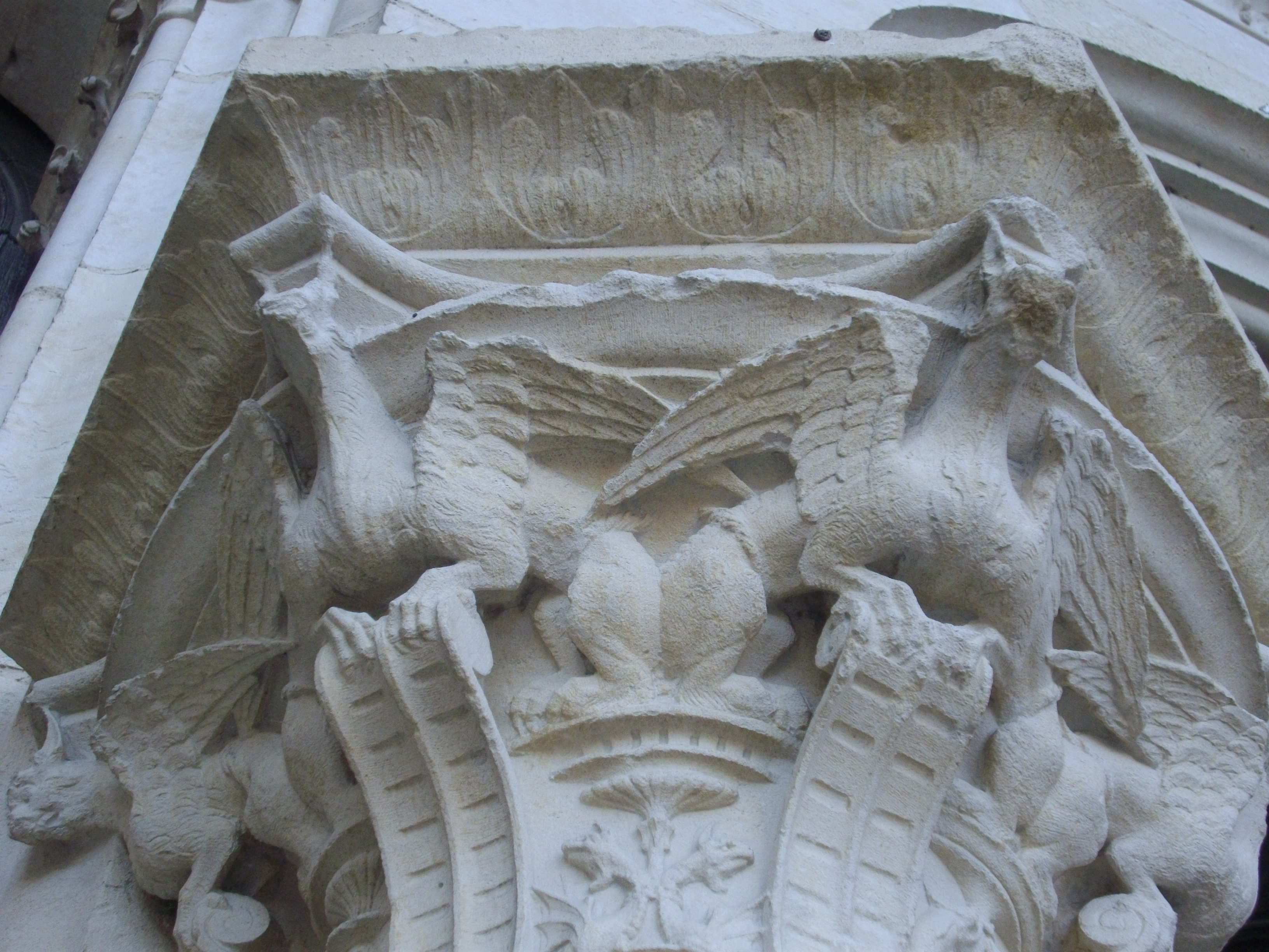 Western facade of Saint Stephen cathedrale of Bourges (Cher, France) .